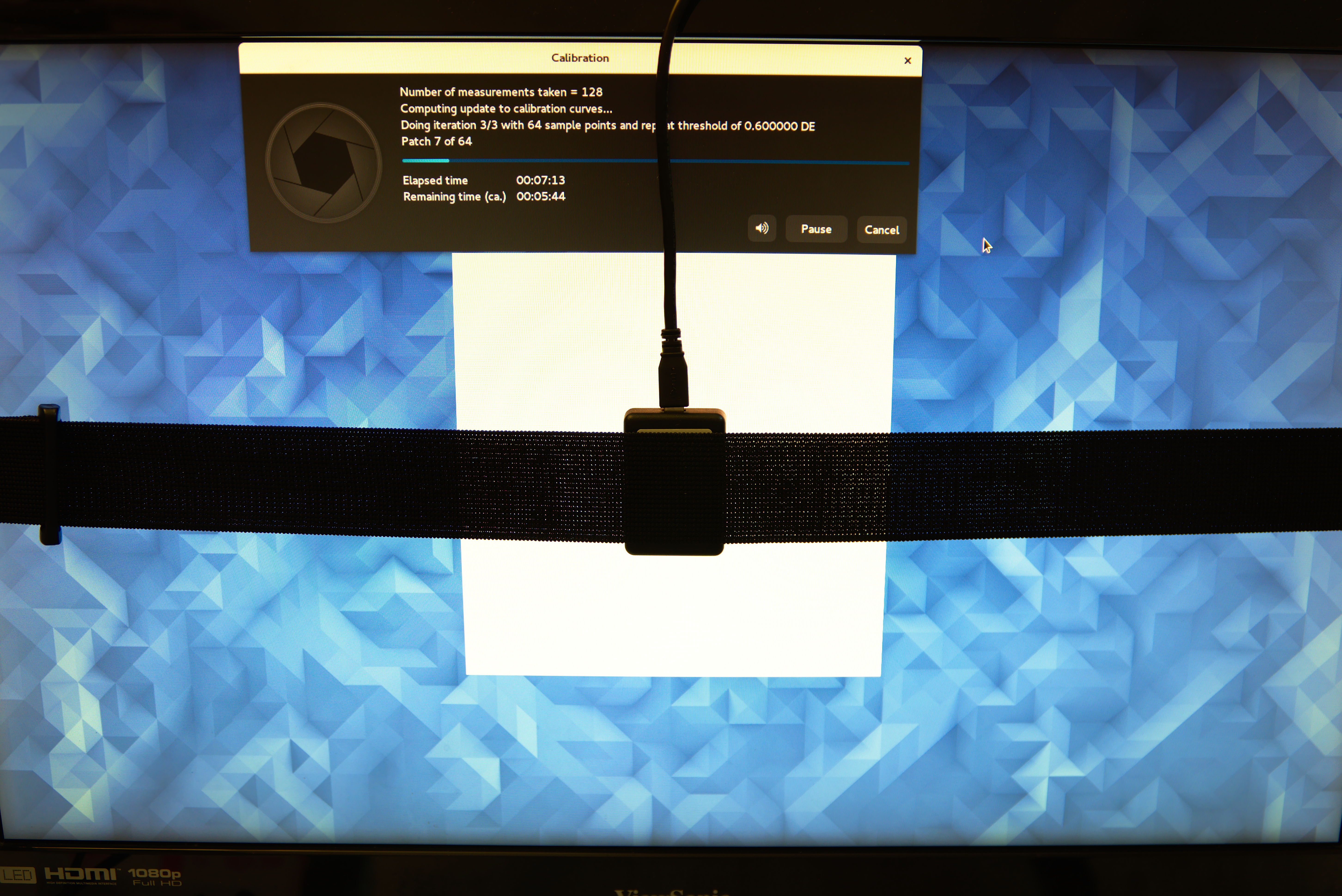 The ColorHug2 (an open source colorimeter) fixed onto a monitor during its calibration, using the included Fedora live USB key.